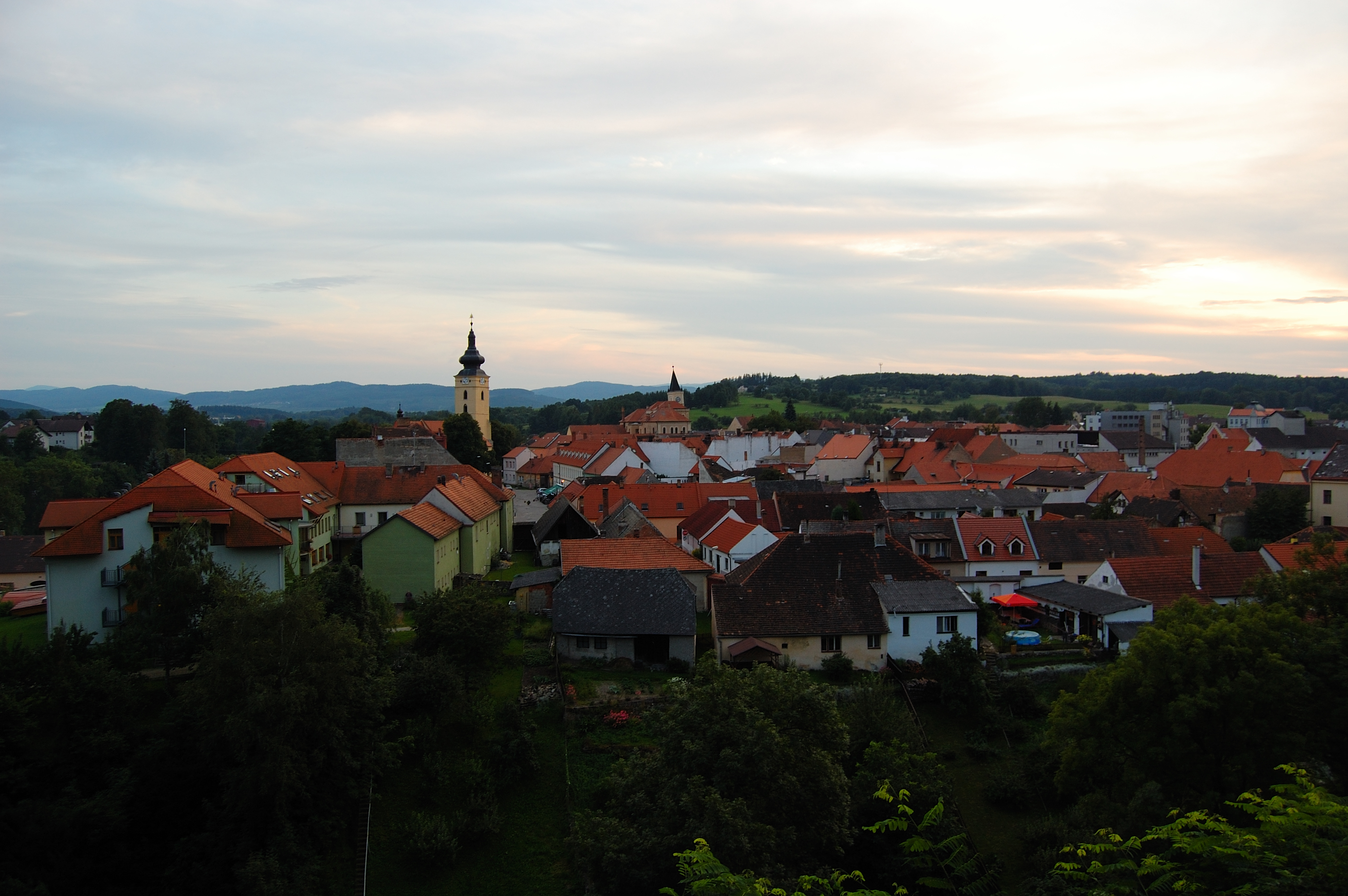 A view of the city of Netolice, Czech Republic.